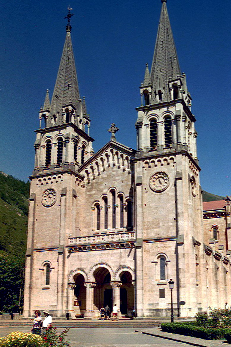 Church in Covadonga, Spain. Photographed by Niels Bosboom in July 2003.